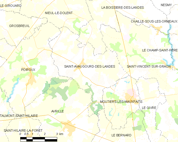 Map of French municipality Saint-Avaugourd-des-Landes